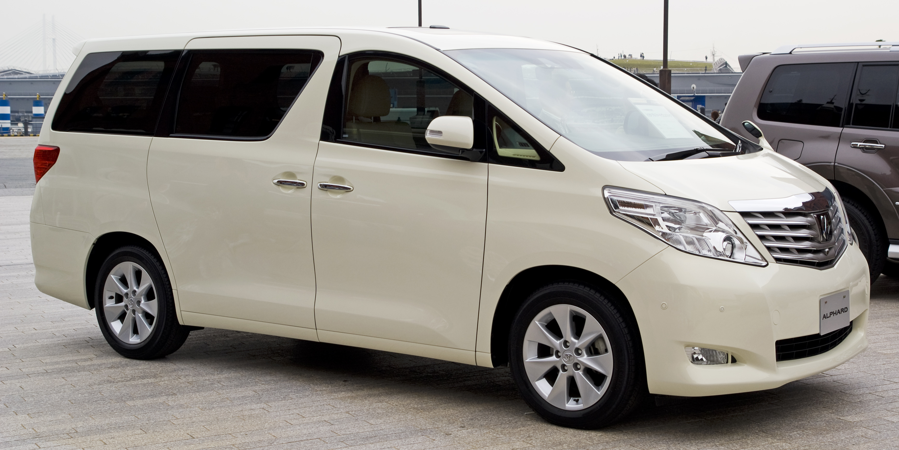 2008 Toyota H20 Alphard photographed in Yokohama Red Brick Warehouse